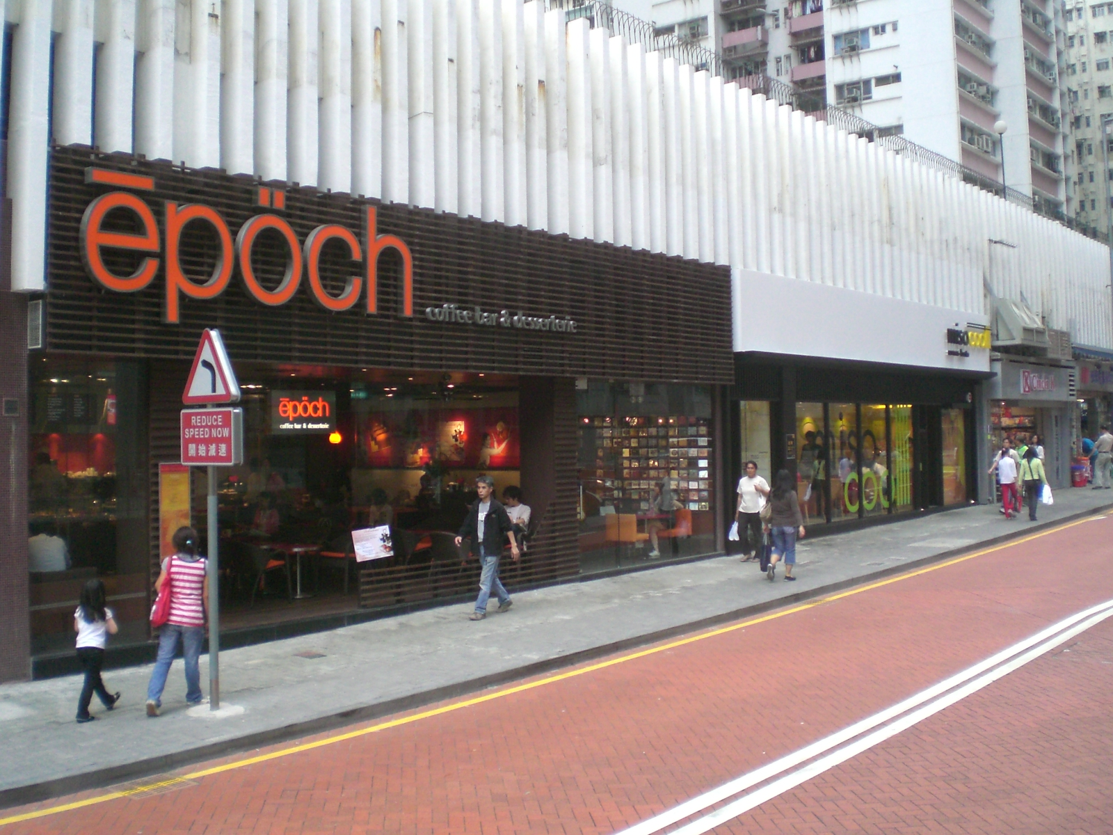 鰂魚涌 太古城道 惠安苑